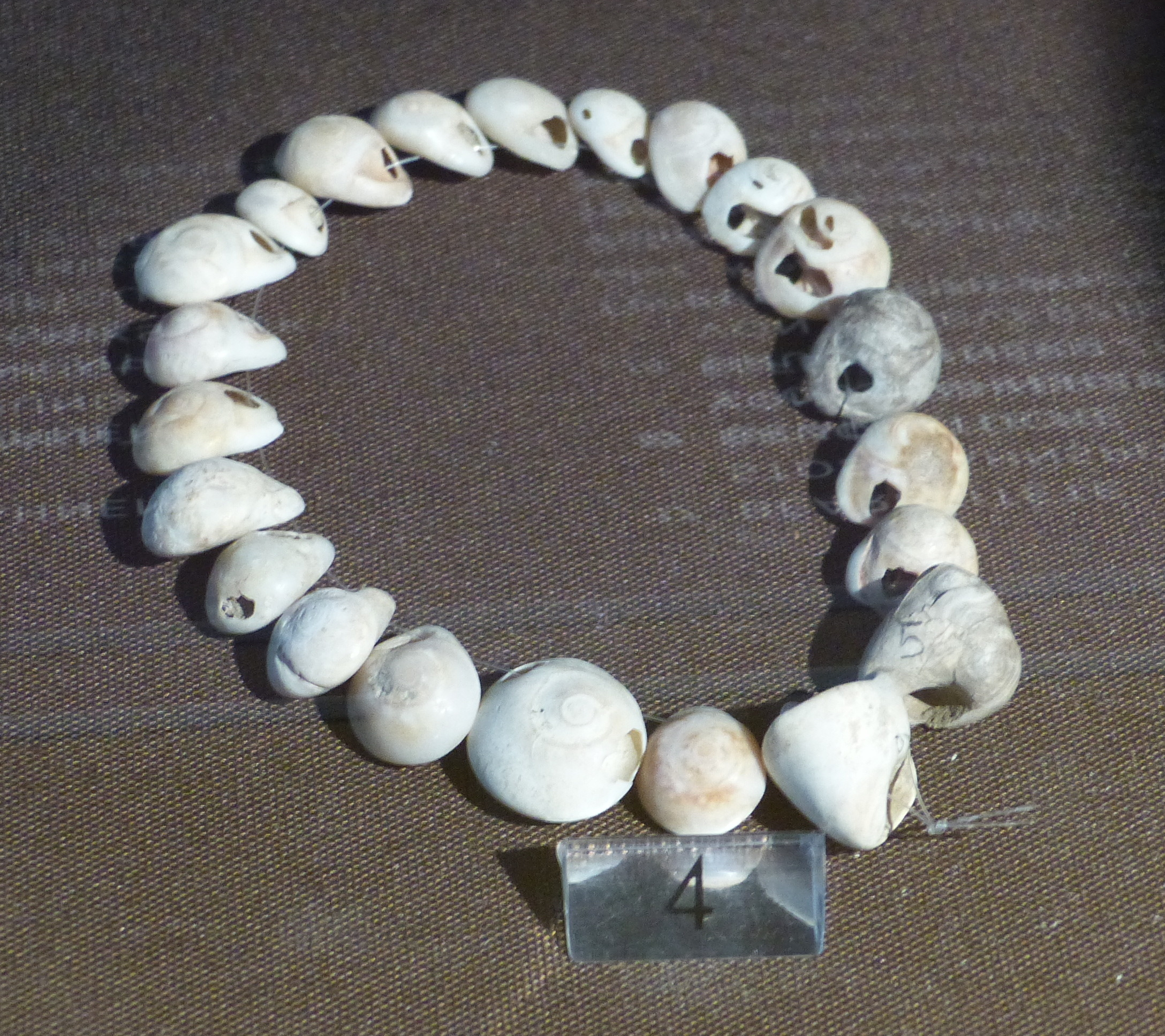 Asparn an der Zaya ( Lower Austria ). Museum of Prehistory: Paleolithic necklace made of Cyclope neritea snails ( 39.000 - 25.000 BC ) from Krems-Hundssteig ( Krems district )